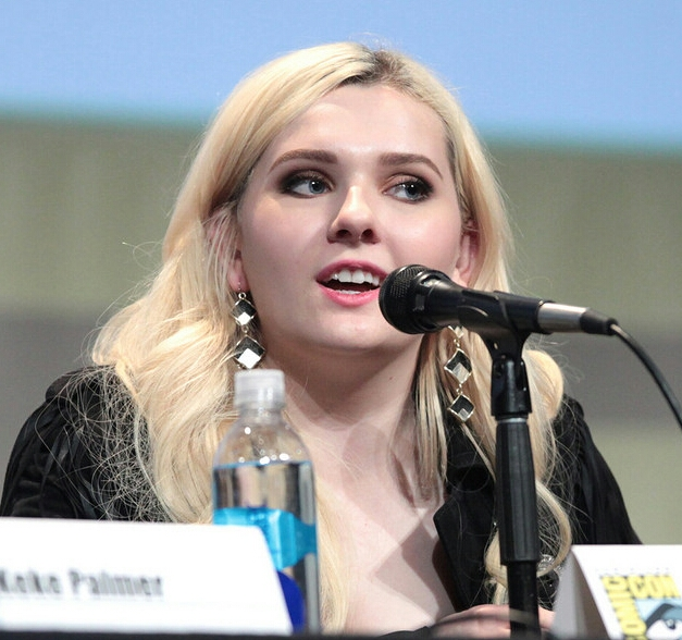 Actress Abigail Breslin at San Diego Comic-Con in 2015